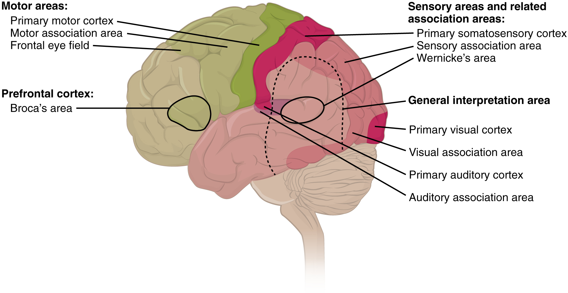 Illustration from Anatomy & Physiology, Connexions Web site. Jun 19, 2013.